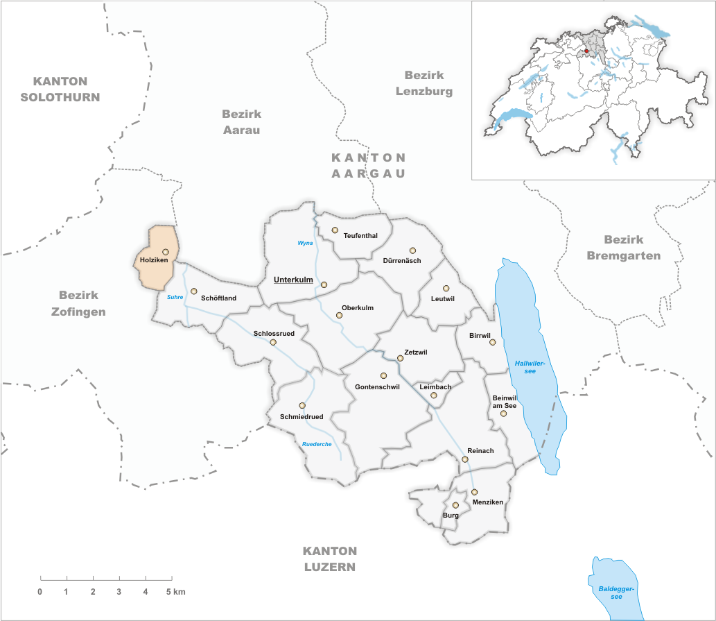 Municipality Holziken